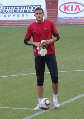 Ilie Cebanu